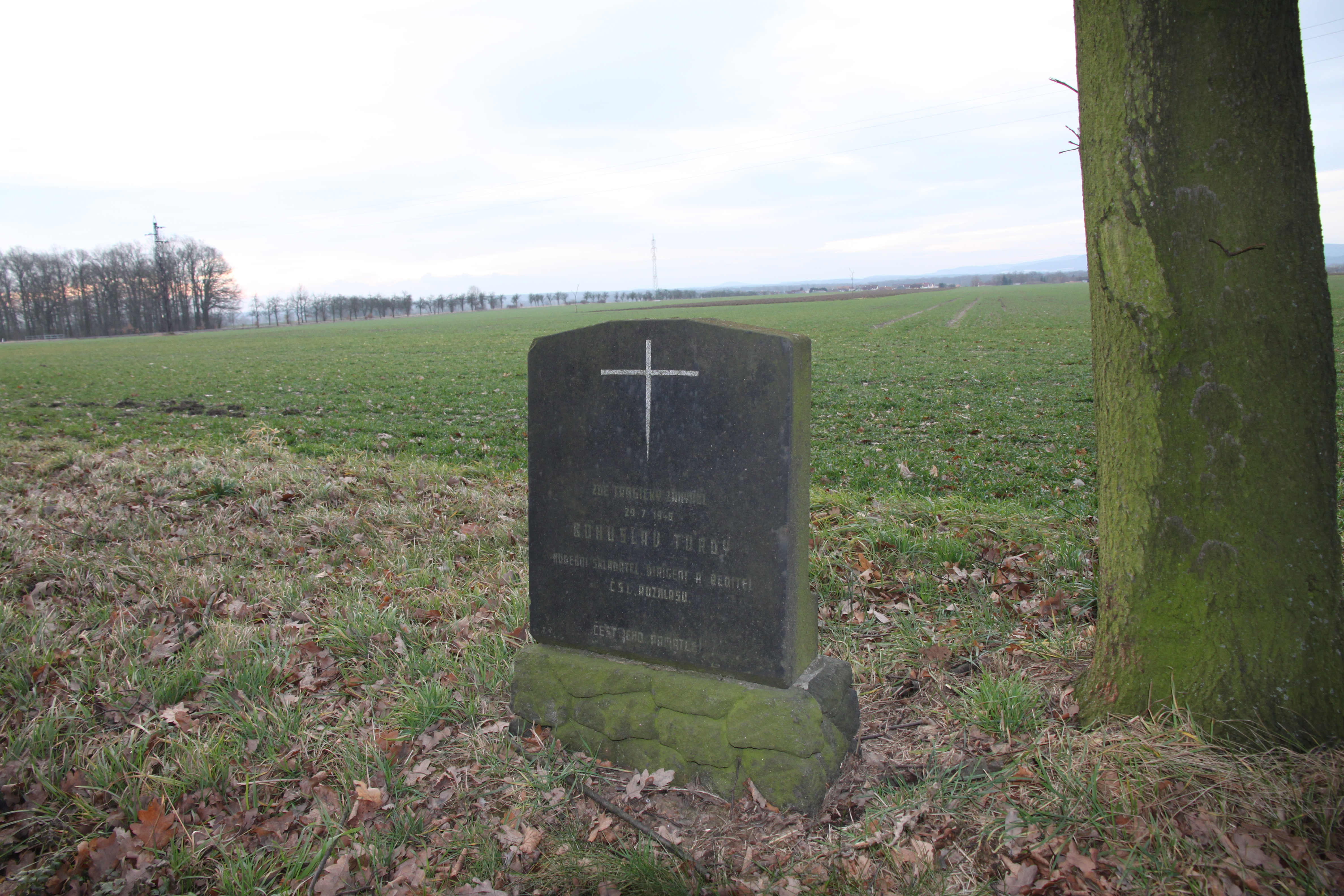 Memorial of Bohuslav Tvrdý (6.4.1897–29.7.1946), musical conductor, composer and director of Czechoslovak Radio